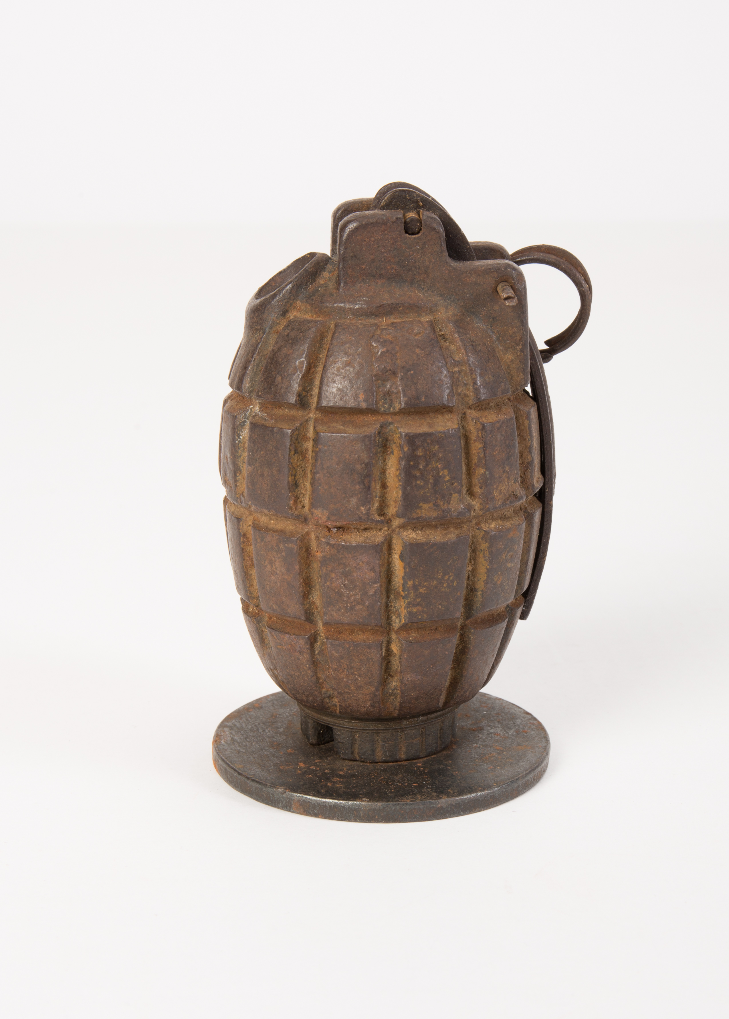 British Mills bomb rifle grenade with stand, circa 1917 Mills bomb grenade on base-plate; cast iron case with steel pin and handle; cast iron base plate screwed onto grenade; base marked with maker's initials and date- "O.M. Co. 12-17"